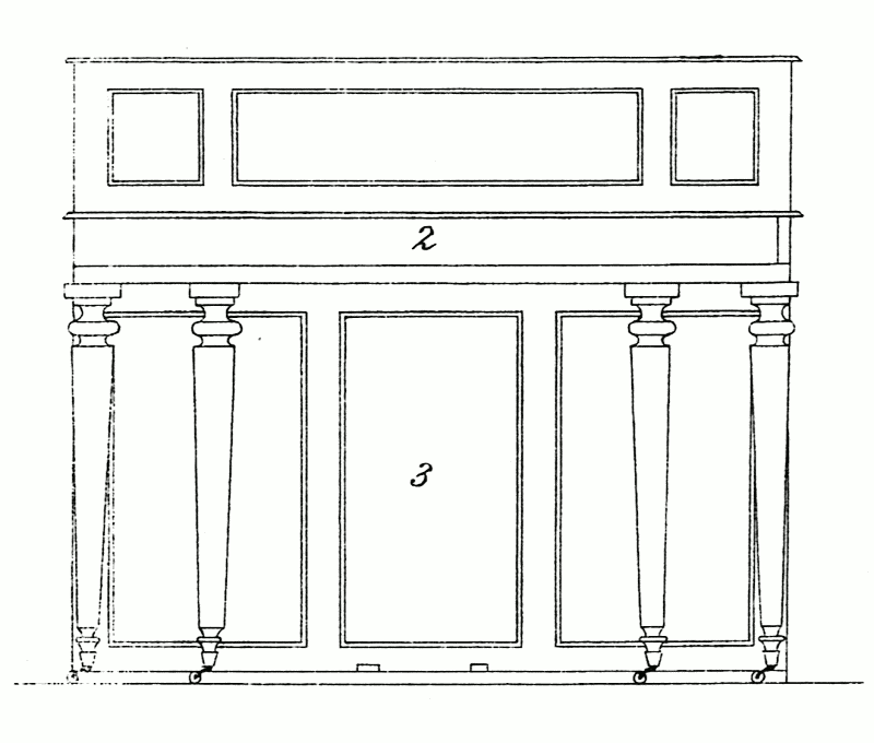 Drawing representing the front view of patented piano, from the specification of the English patent granted to Robert Wornum (the younger), dated March 26, 1811